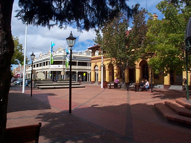 Taken by Michael Gardner 2005